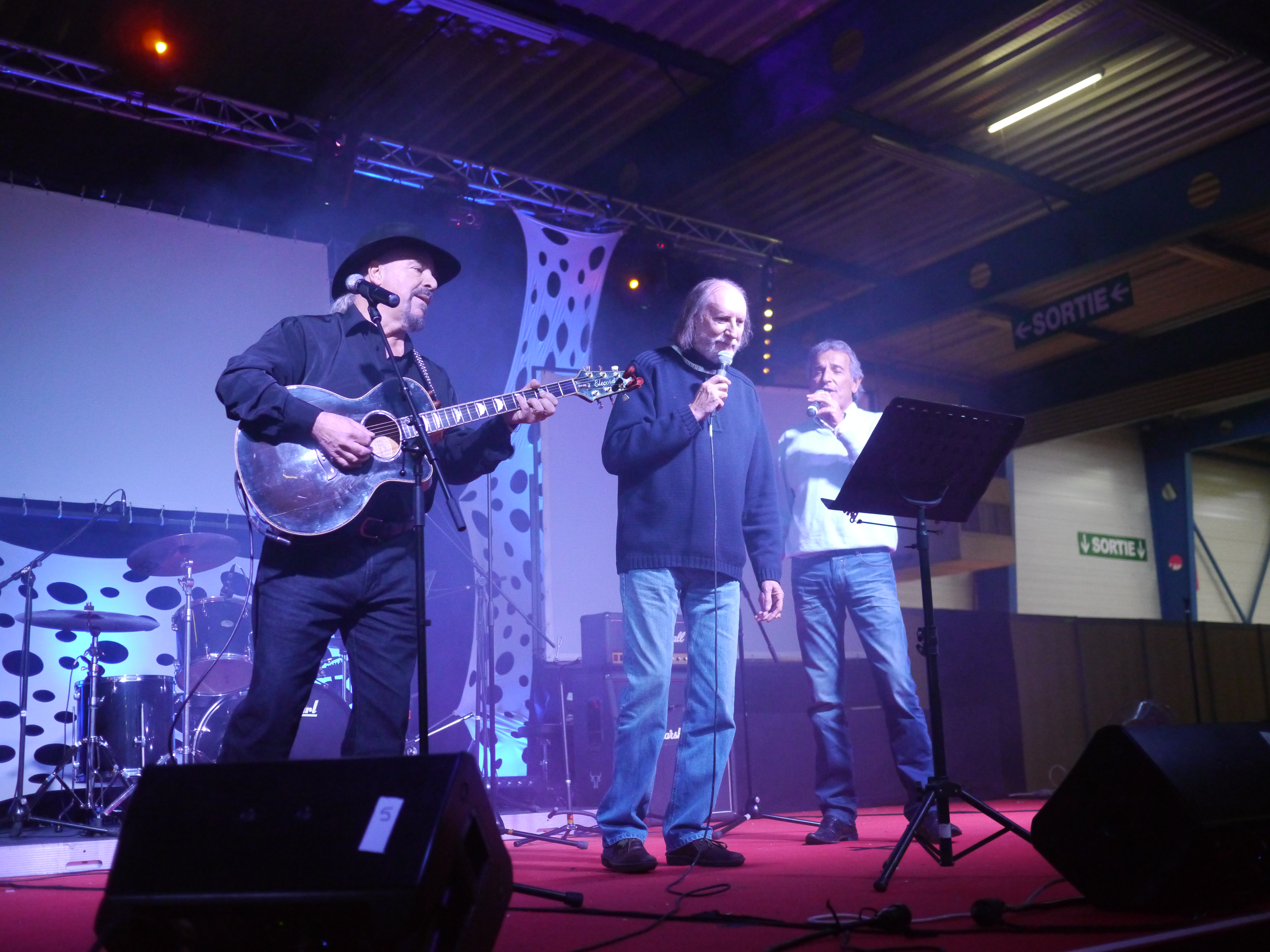 Toulouse Game Show Festival, 6th edition.